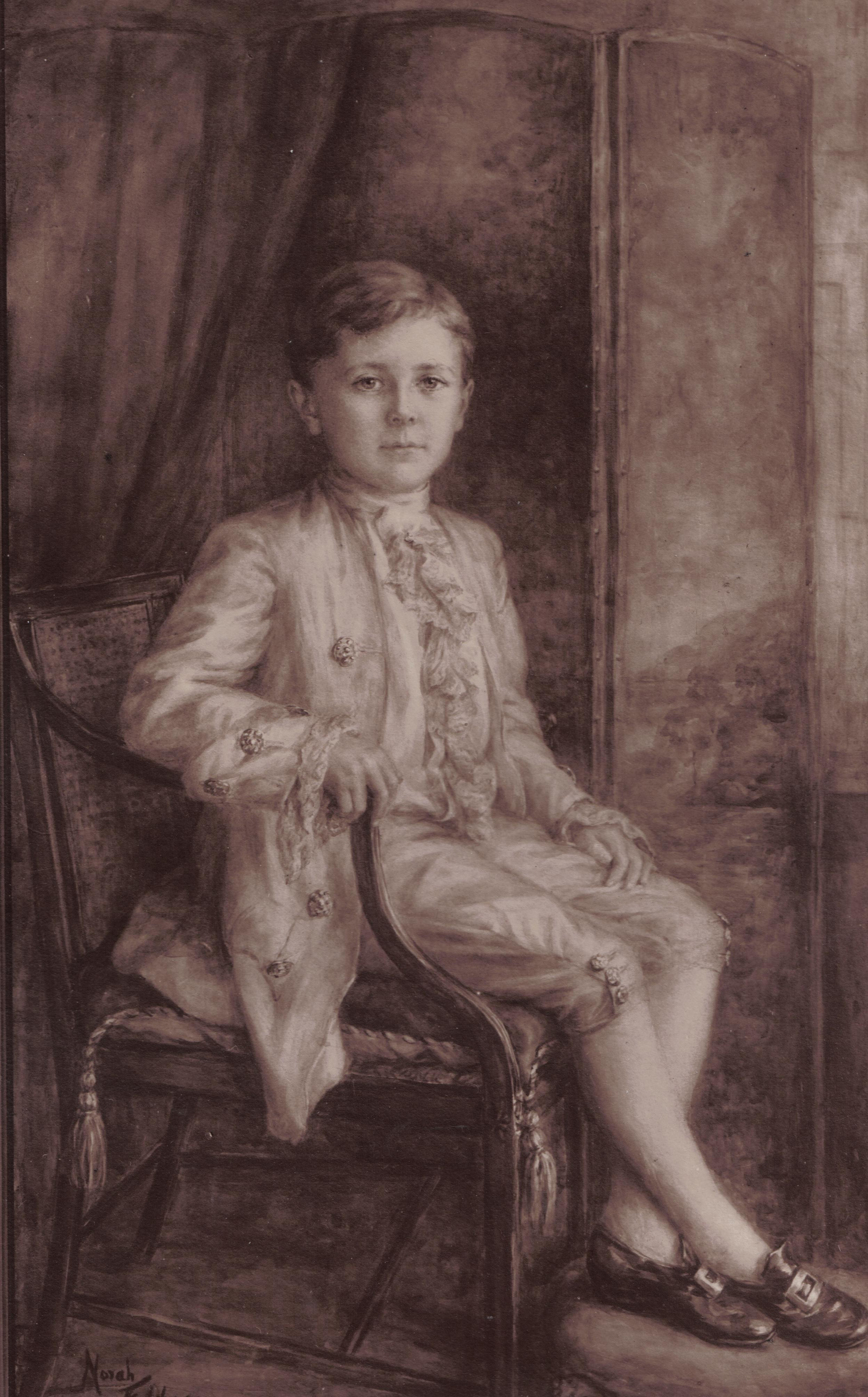 Archibald William Alexander Montgomerie, 17th Earl of Eglinton. Dated 1921. Ayrshire, Scotland.